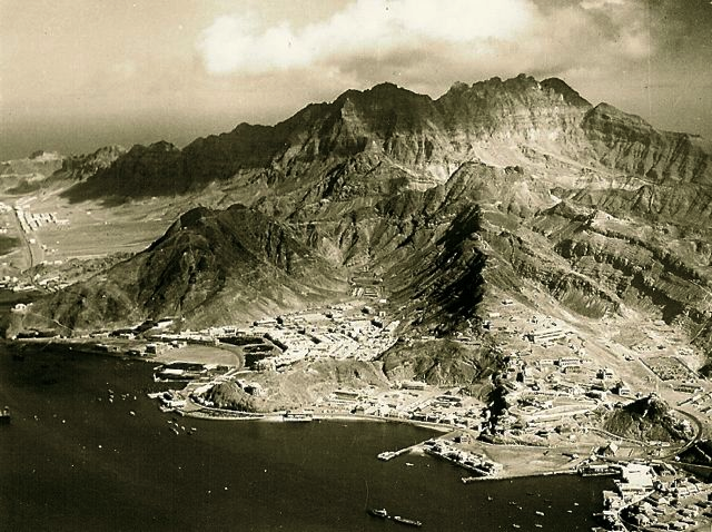 Aerial view of Aden, circa 1935